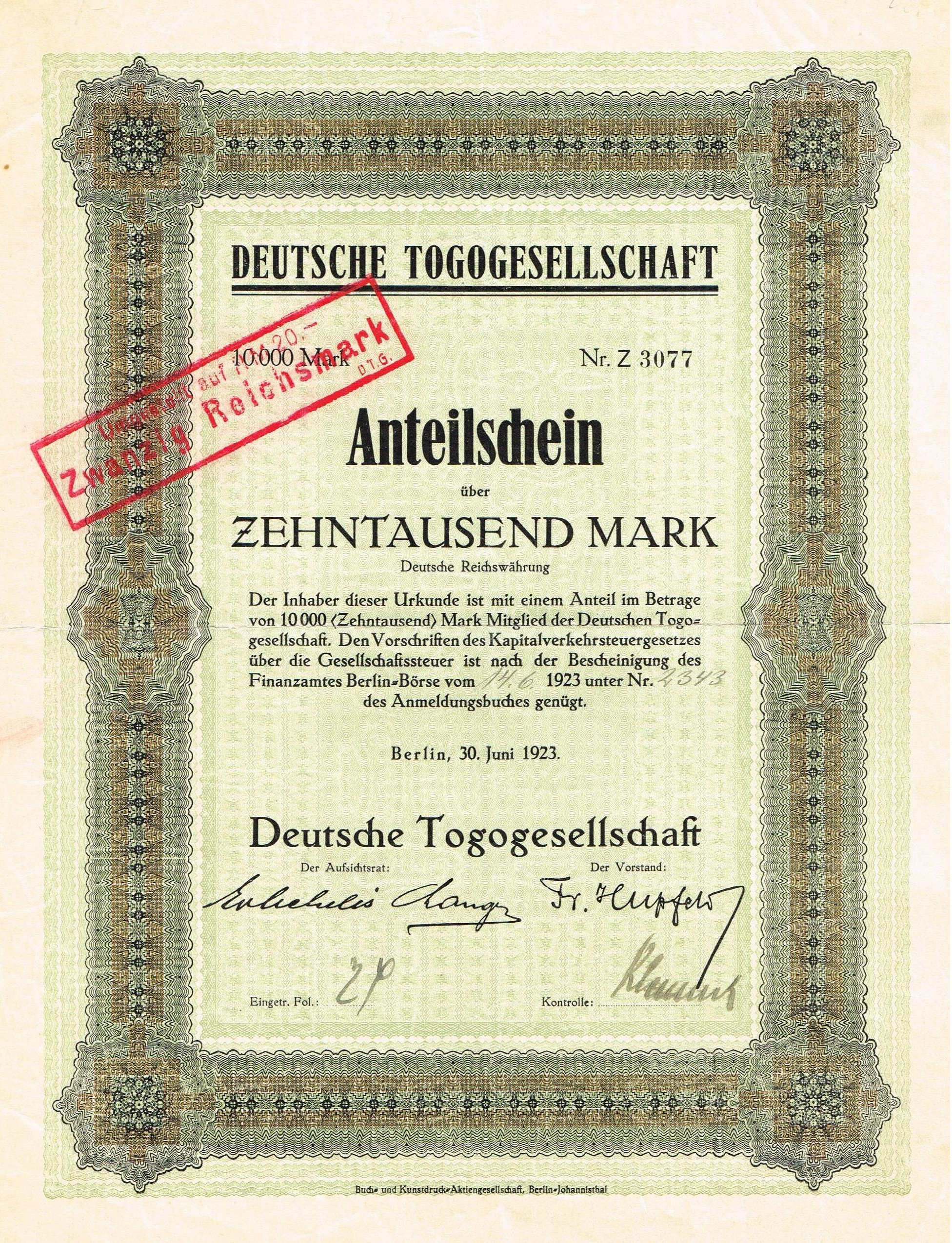 Share certificate of the Deutsche Togogesellschaft, issued 30. June 1923